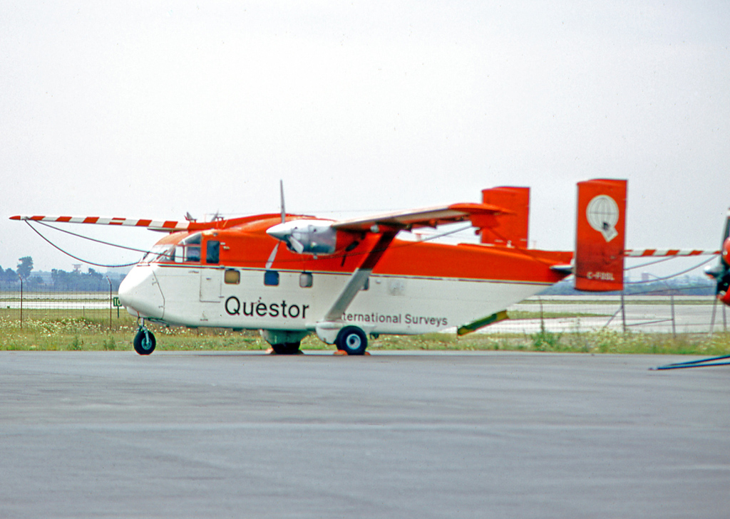 Short SC.7 Skyvan 3 C-FQSL of Questor Surveys at Toronto (Malton) Airport in 1975